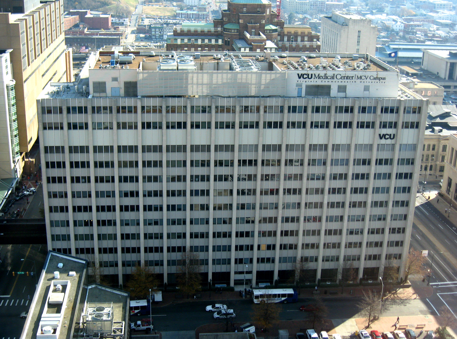 James Branch Cabell Library, main library for the Monroe Park Campus.